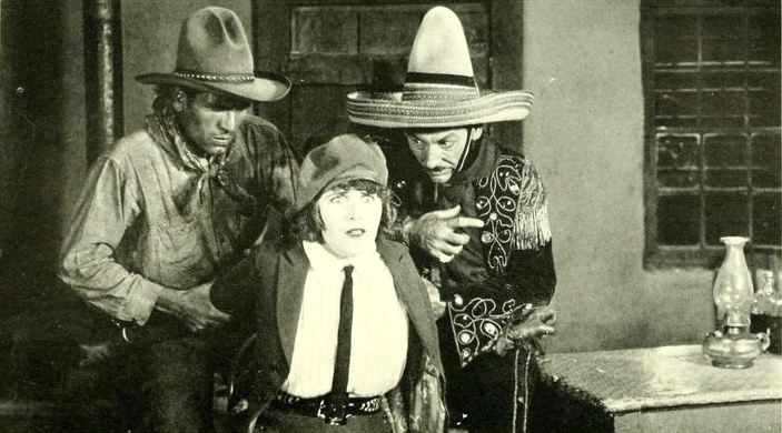 Still from the American film serial The Avenging Arrow (1921) with Ruth Roland, on page 19 of William Lord Wright, Photoplay Writing (1922).